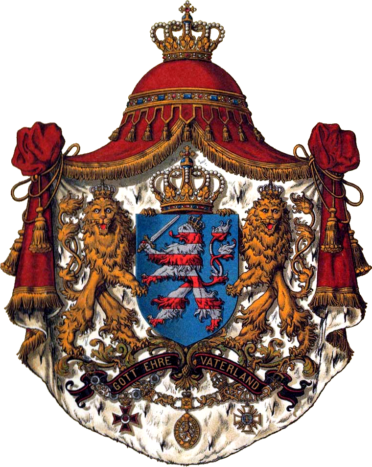 Great majesty crest of the Grand Duchy of Hesse